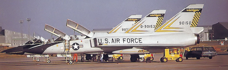 Two U.S. Air Force Convair F-106B-75-CO Delta Dart interceptors of the Michigan Air National Guard in the 1960s. 59-0150 (c/n 8-32-02) was retired to the AMARC as FN0030 on 17 January 1984. It was converted to an QF-106A (AD278) and shot down by an AIM-9M on 4 December 1997. 59-0153 (c/n 8-32-05) was retired to the AMARC as FN0130 on 6 April 1987. It was also converted to an QF-106A (AD272) and shot down by an AIM-120 on 11 September 1997.